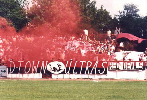 Fanatics and ultras on third class match with red smoke and flags as well as big noise of course.